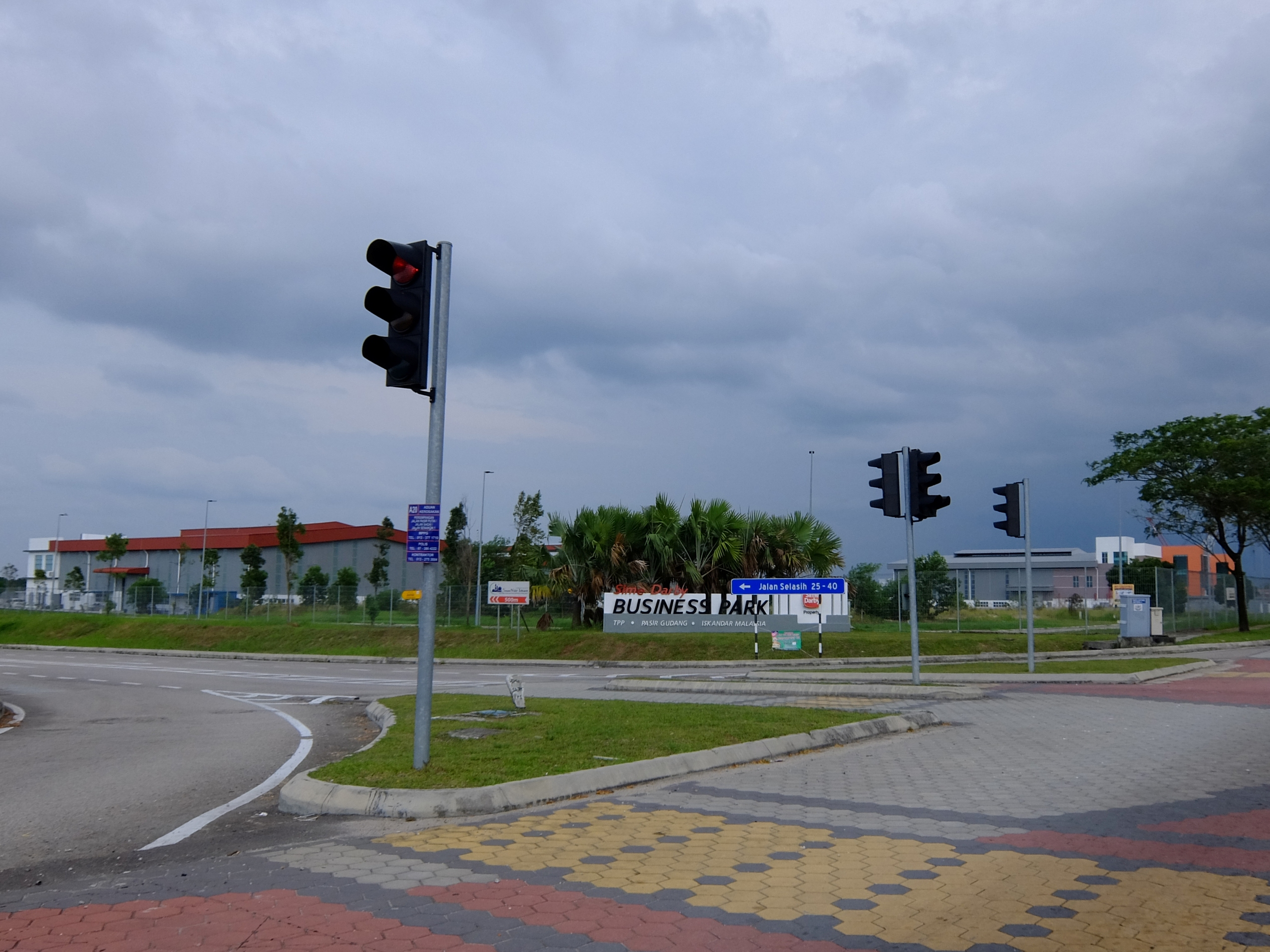 Sime Darby Business Park, Pasir Gudang, Johor Bahru, Johor, Malaysia